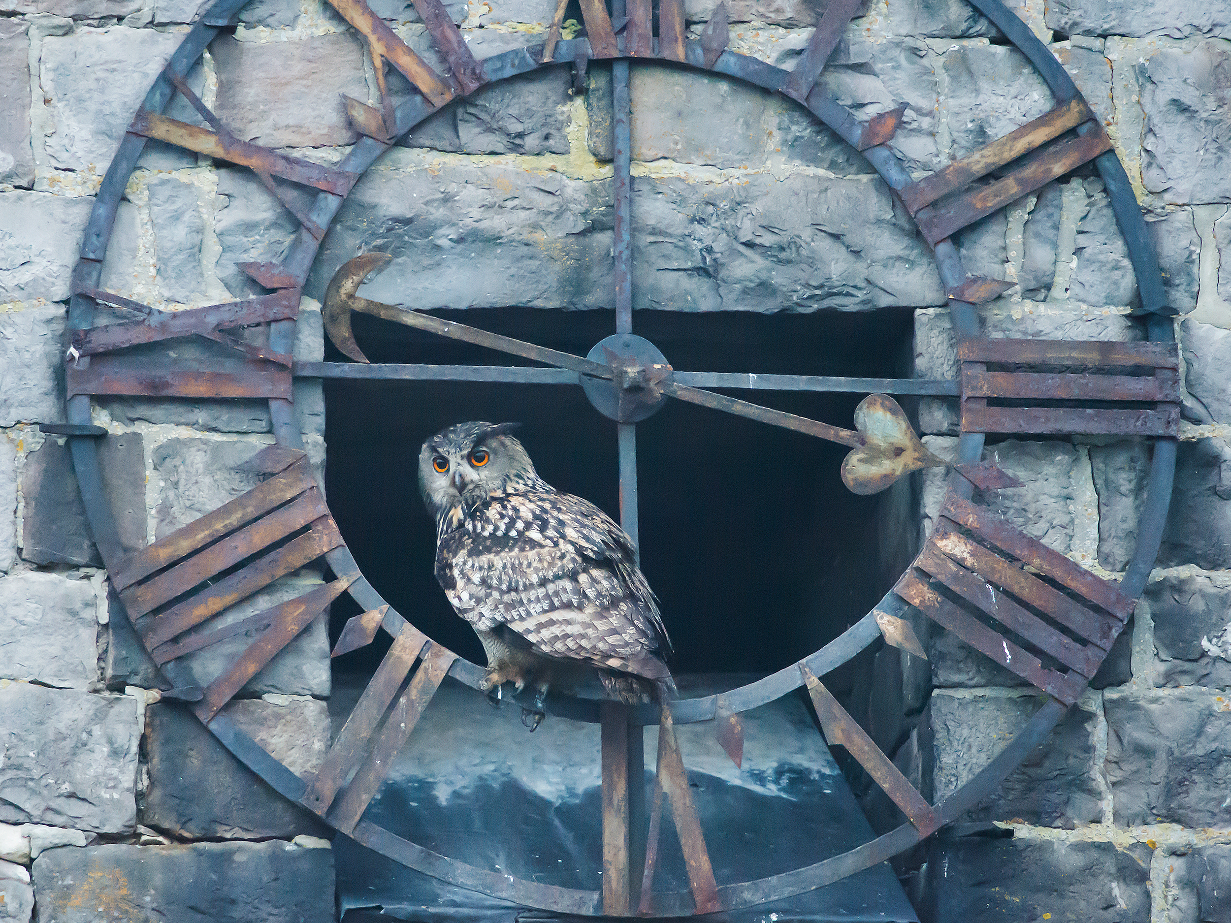 Breeder in the clock tower of Bunsbeek (June 2016)